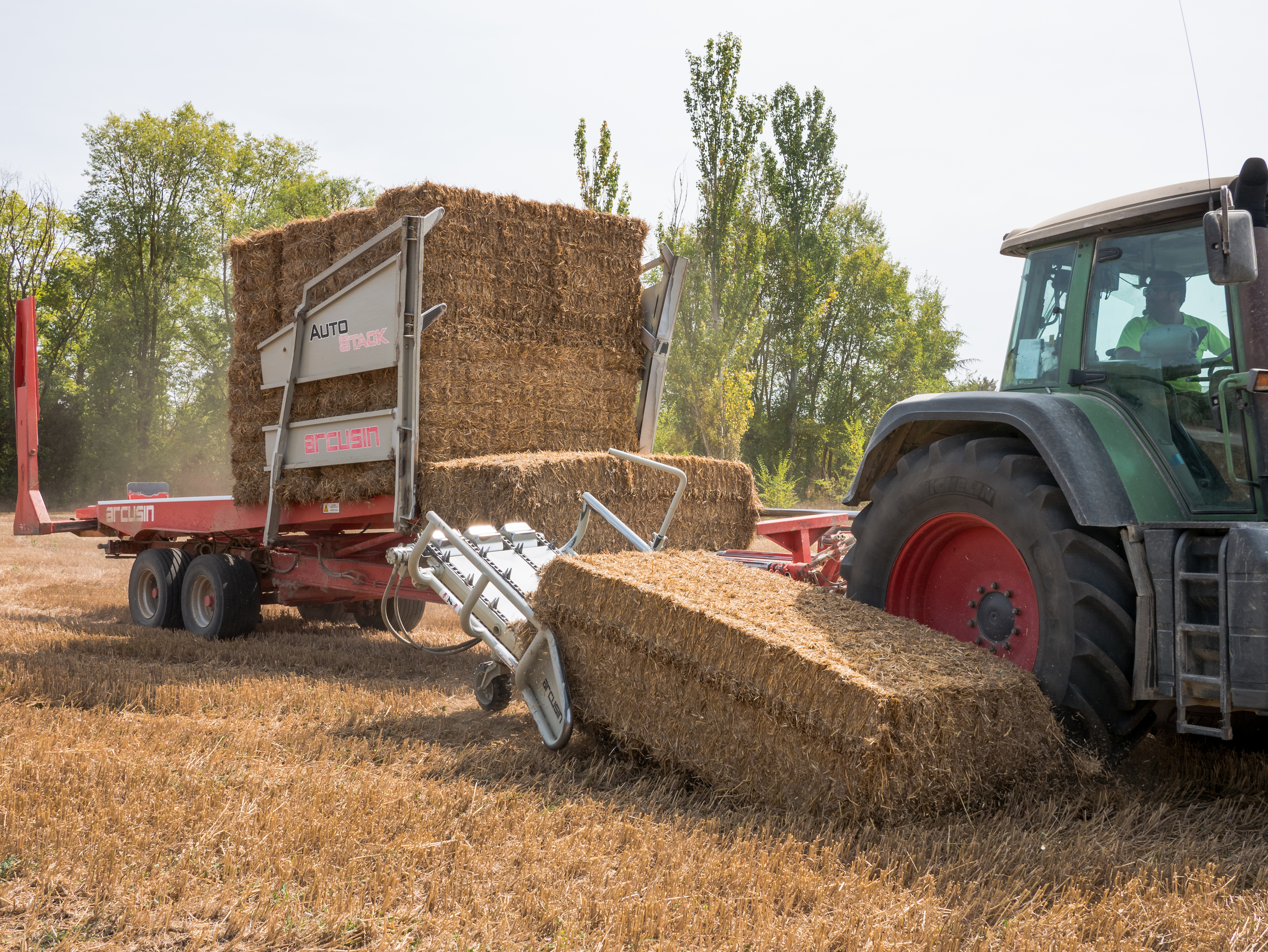 Fendt tractor (probably of the 700 or 800 Vario series) with automatic bale loader trailer (model AutoStack of the manufacturer Arcusin) on a field near Gobeo. Vitoria-Gasteiz, Basque Country, Spain